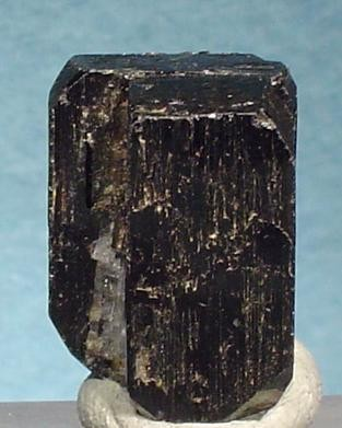 Columbite Locality: Hewitt Gem Quarry (Herb's Gem Quarry; Sawmill Quarry), Haddam, Middlesex County, Connecticut, USA (Locality at ) Size: 1.7 x 1.2 x 1.0 cm. A pristine, complete all-around, very sharp and lustrous, blocky, black columbite crystal from Hewitt Mine, Haddam, Connecticut. Columbite is RARE from this locality, which is nicely accented by a bit of quartz hidden in the notch. This is CLASSIC, OLD-TIME Haddam material. Ex. Jarnot Collection, Connecticut specialists.